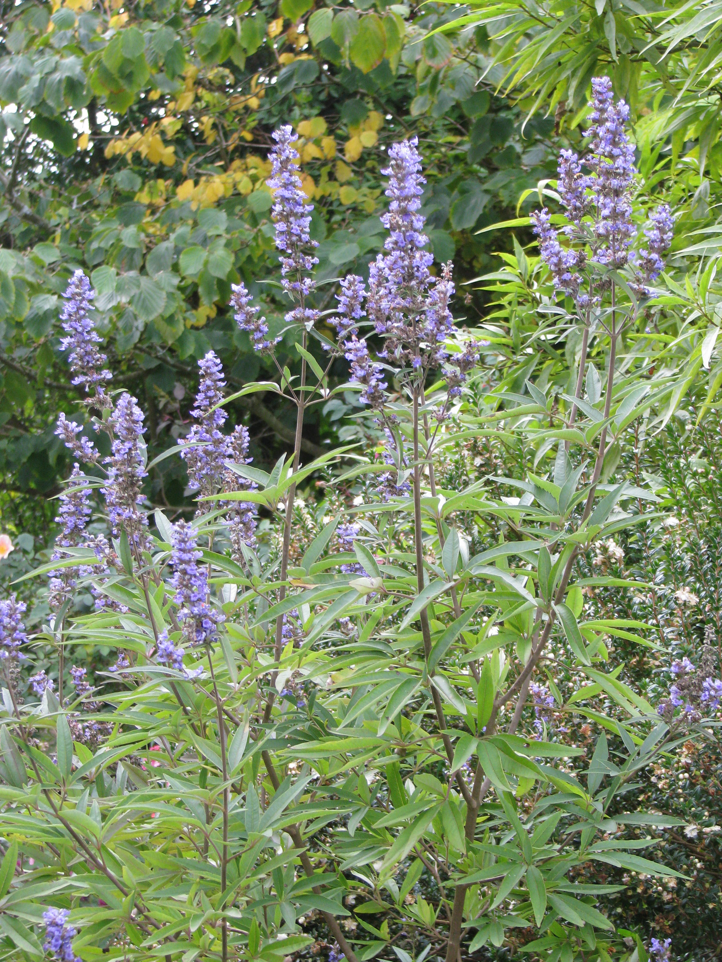 I so often see this species classified as tender. It certainly isn't here. The late flowering can get hit by frost, but otherwise...